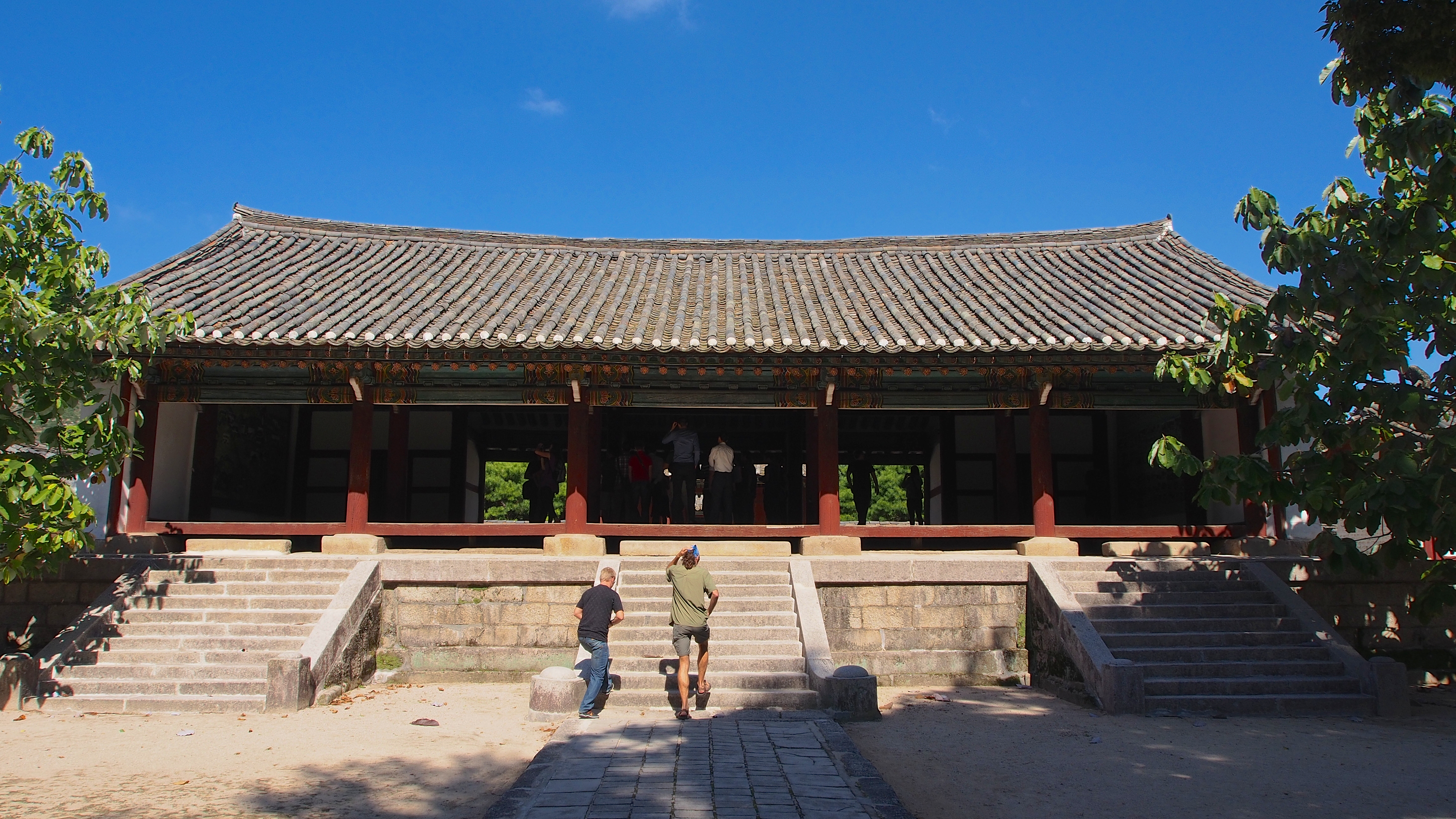 The Koryo Museum, housed in the city's old Confucian academy, contains many priceless Koryo arts and cultural relics (although many are copies, with the originals held in the vaults of the Korean Central History Museum in Pyongyang.